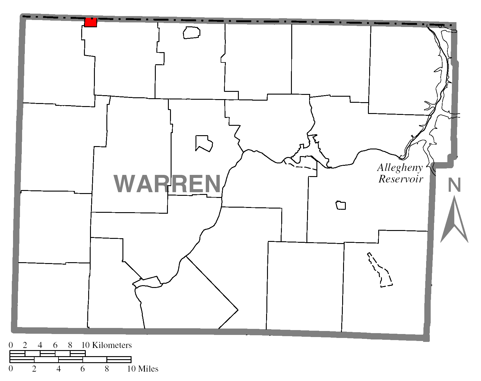 Map of Warren County higlighting Bear Lake.